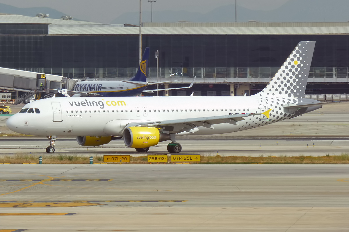 Vueling, EC-IEI, Airbus A320-214